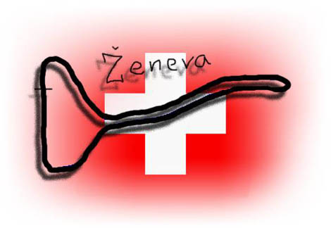 Diagram of the Geneve Circuit.